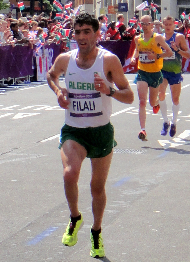 Tayeb Filali (Algeria) - London 2012 Men's Marathon